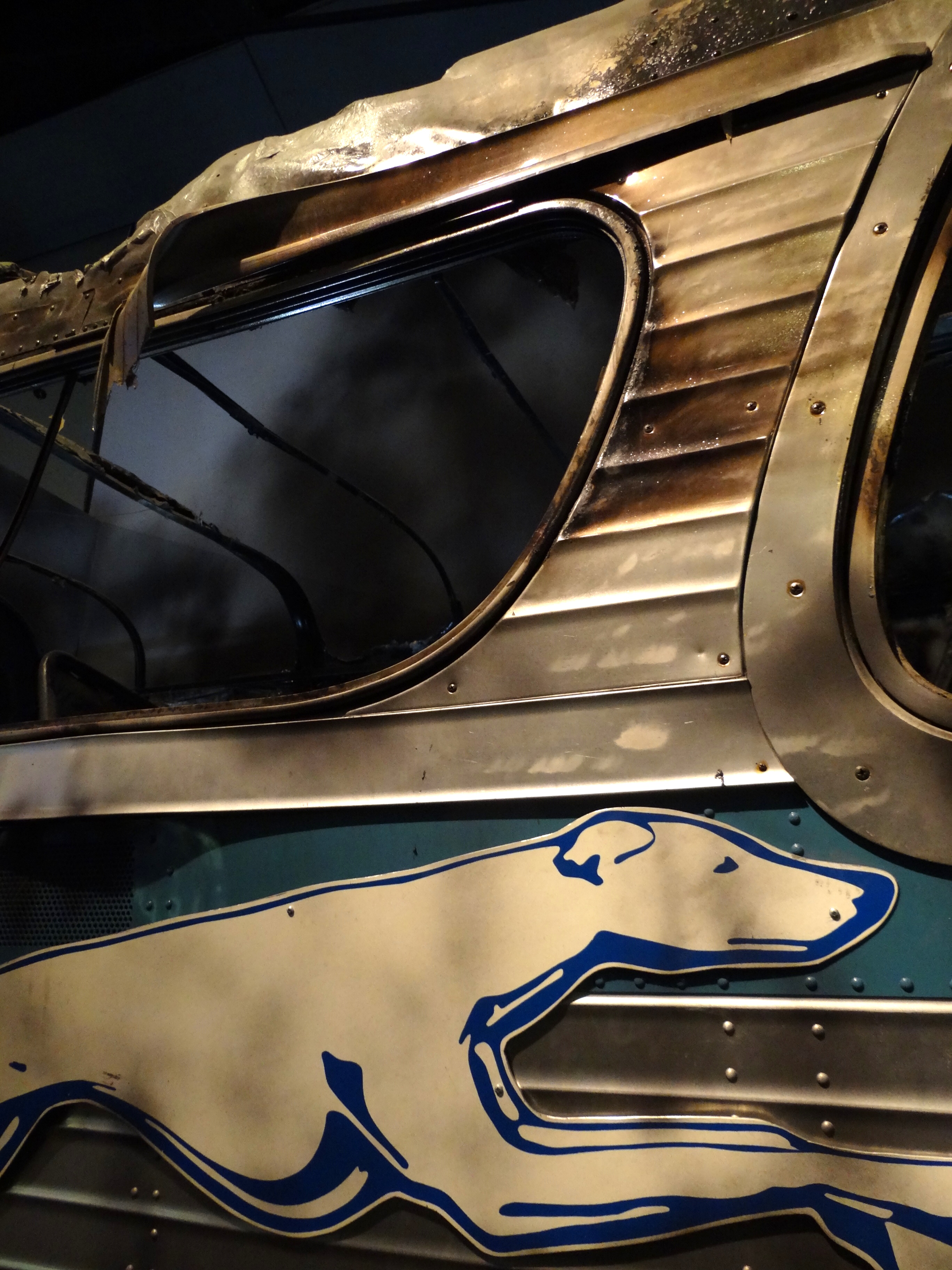 Recreation of Greyhound Bus Firebombed in Freedom Rider Campaign - National Civil Rights Museum - Downtown Memphis - Tennessee - USA